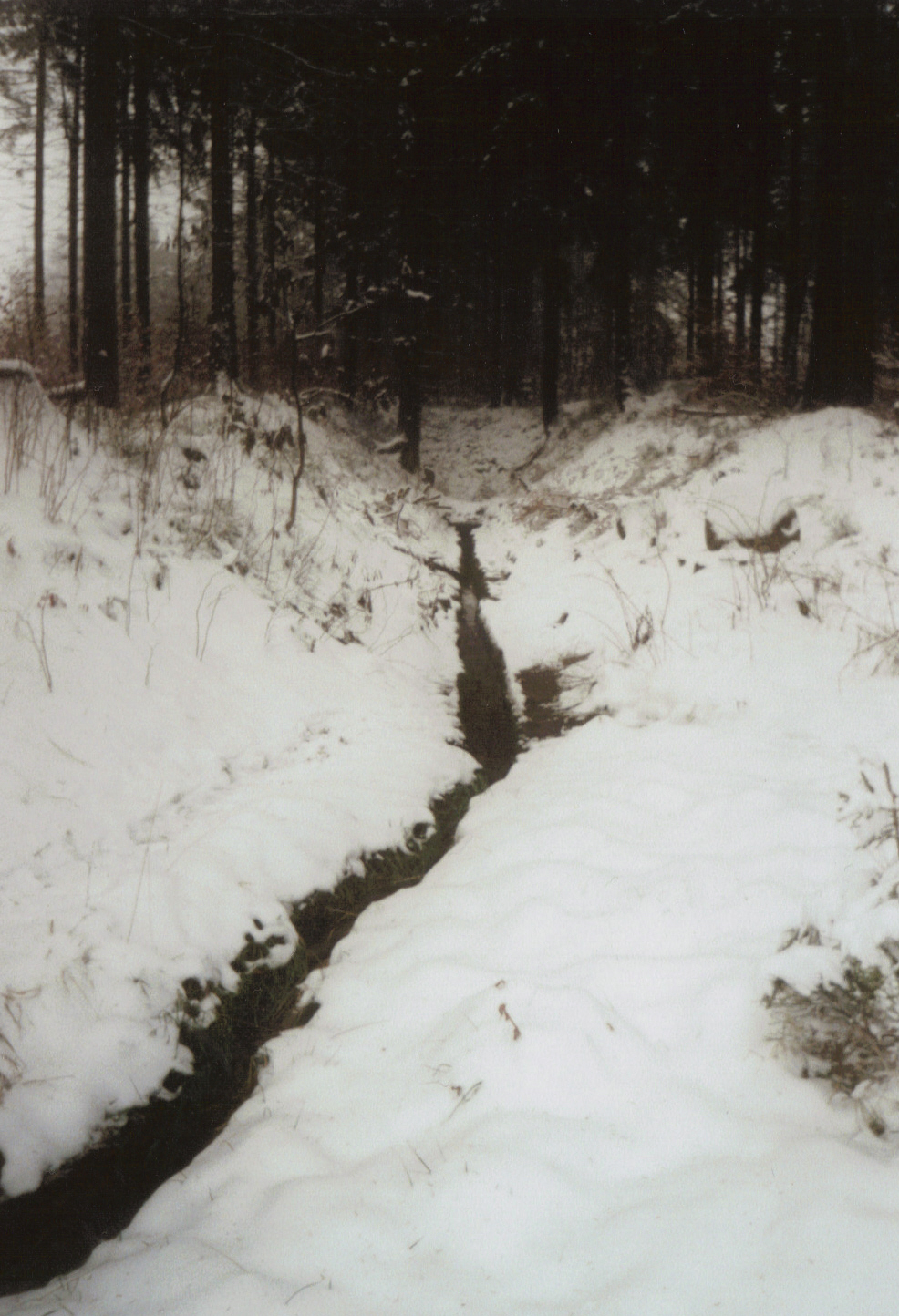 The source of the river Innerste in the Harz Mountains.